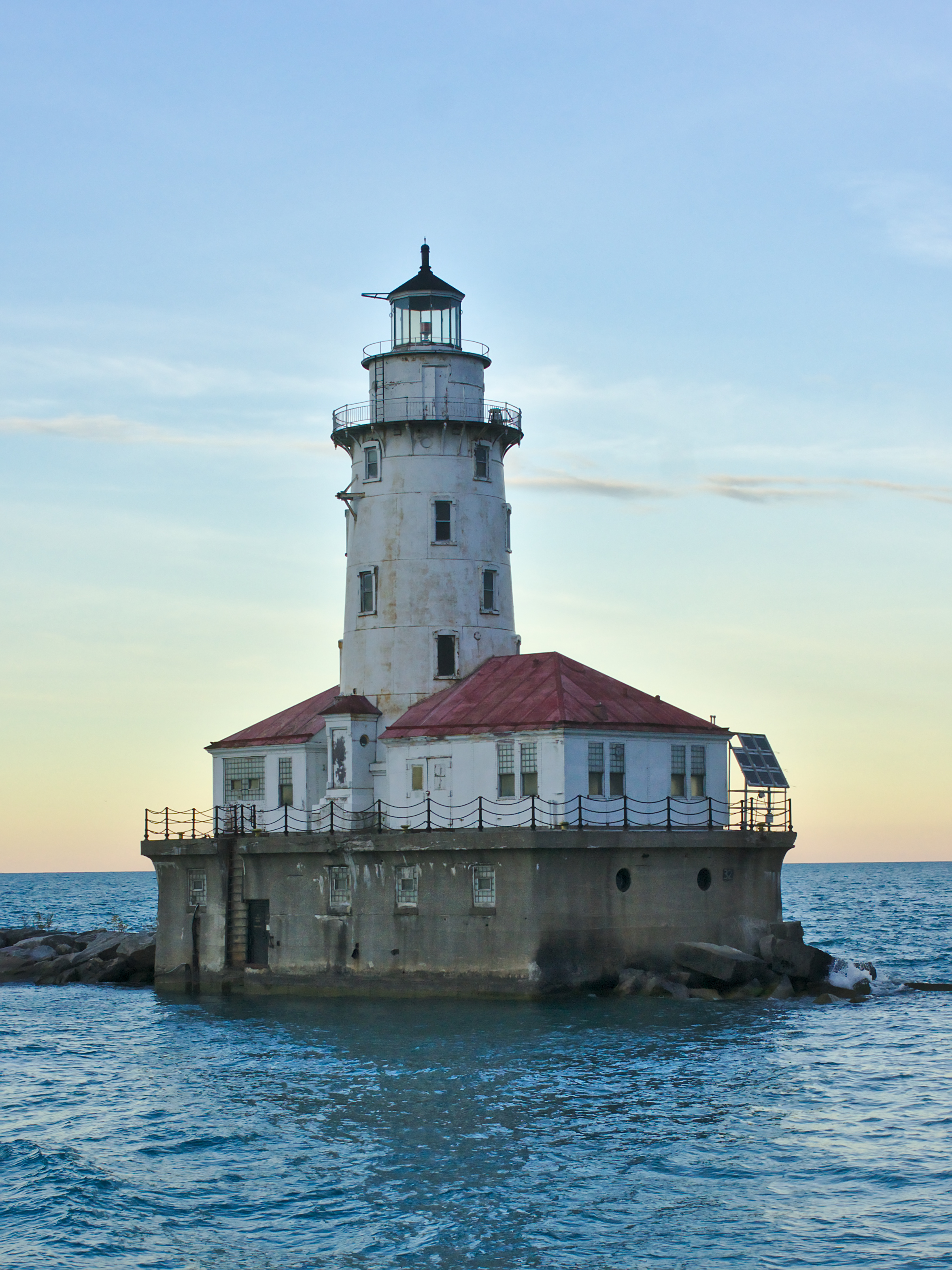 Chicago Harbor Light in the dusk, 2015.